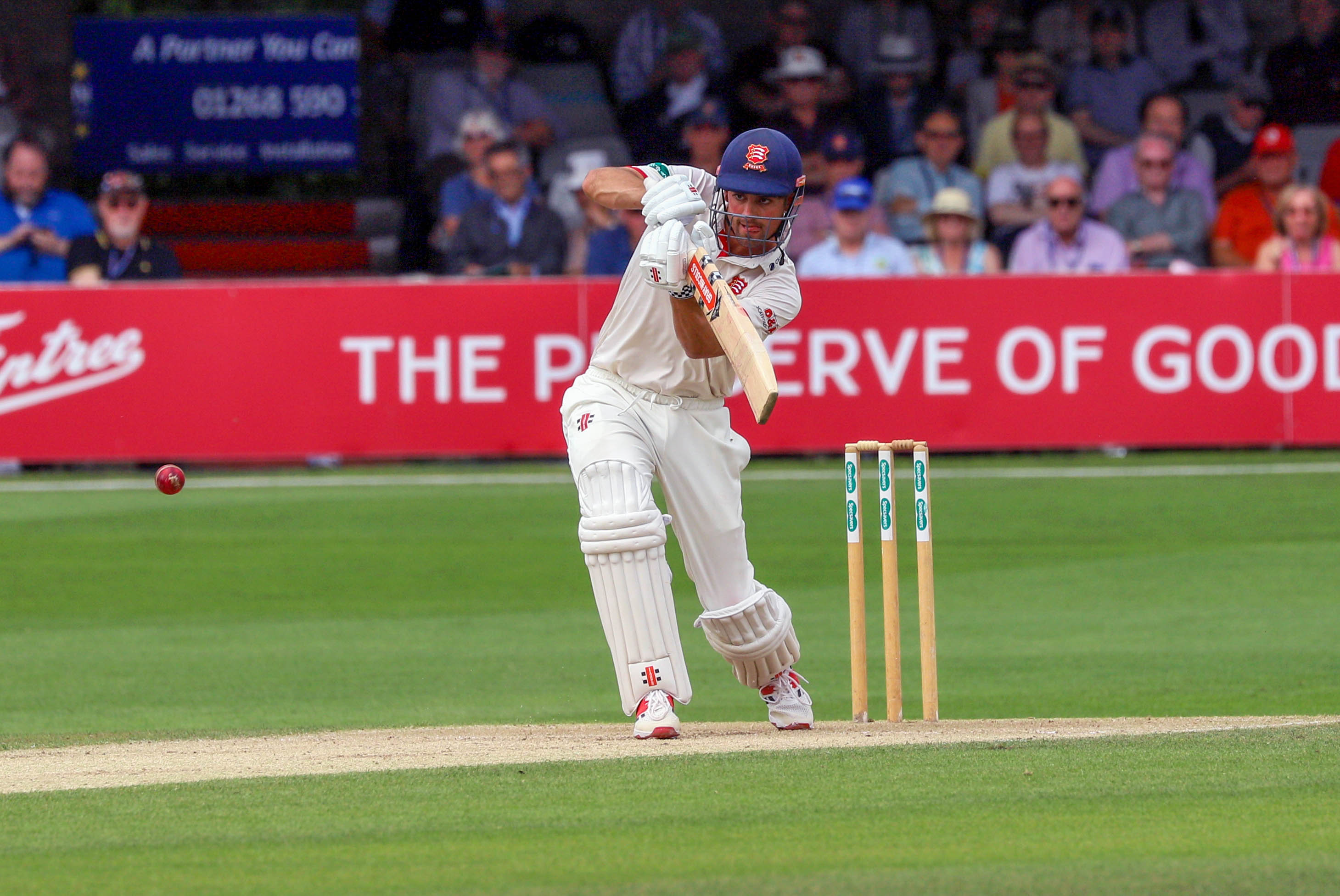 Alastair Cook batting for Essex vs Somerset CCC in 2019